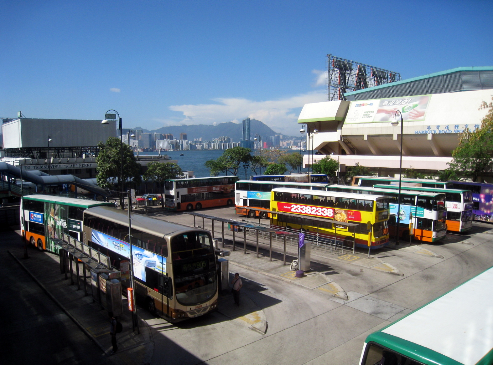 Wan Chai Pier Bus Terminal